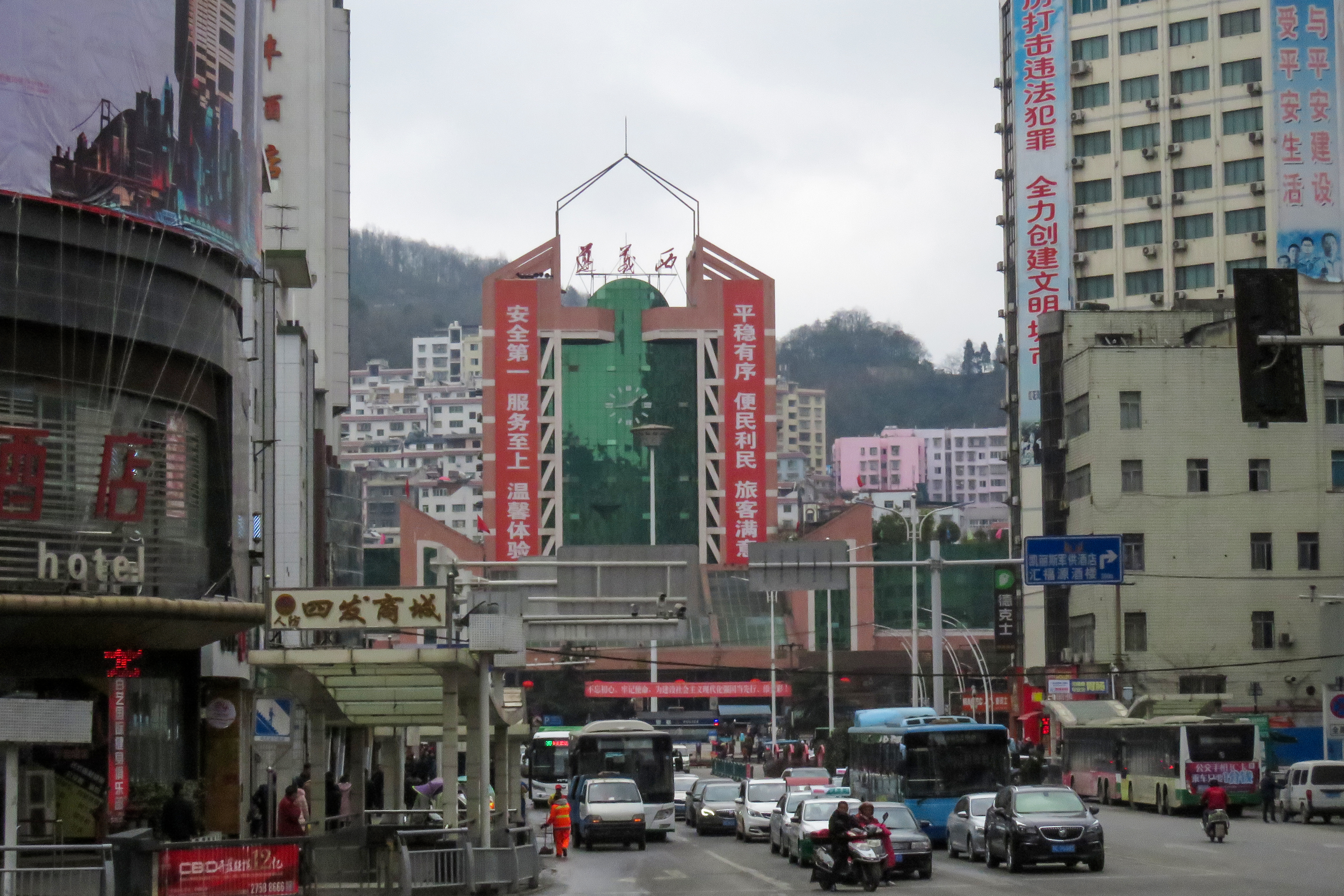 This 10-storey building was completed in 1998, but still not an upper cover property.